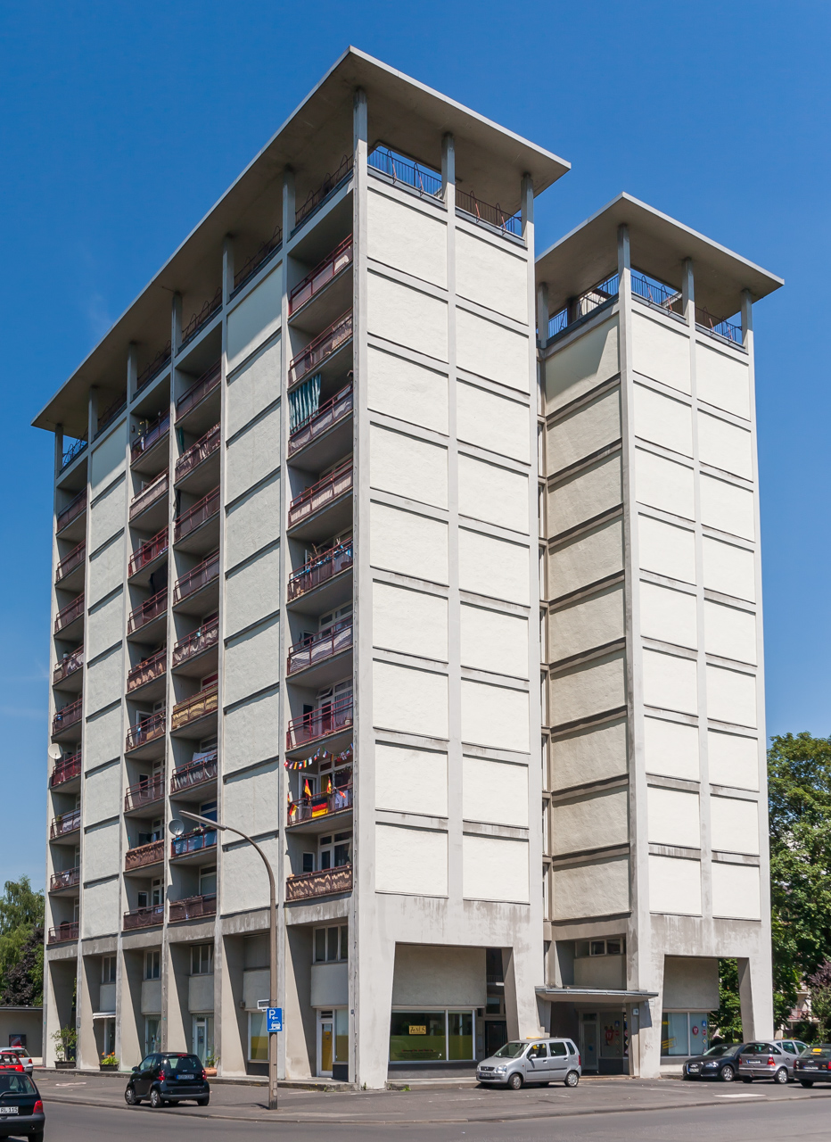 Röntgenstraße 19, Bonn-Muffendorf: highrise in HICOG residental area in Bonn-Muffendorf, built in 1951/52 for members of the US-american “High Commissioner of Germany” (HICOG)